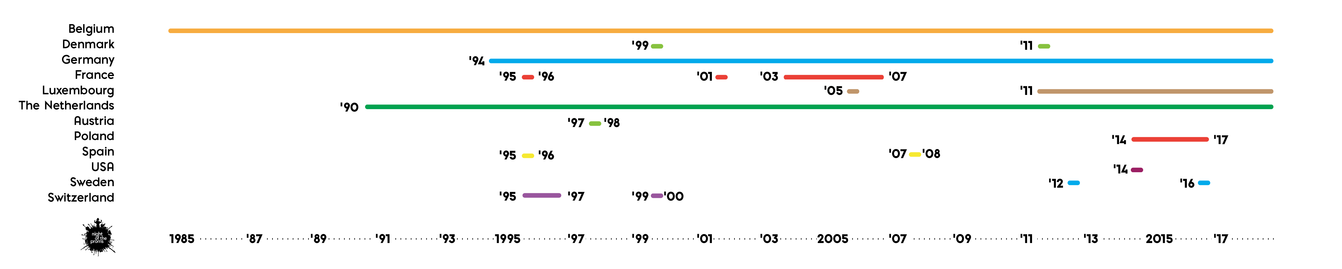 Tijdlijn landen Engels